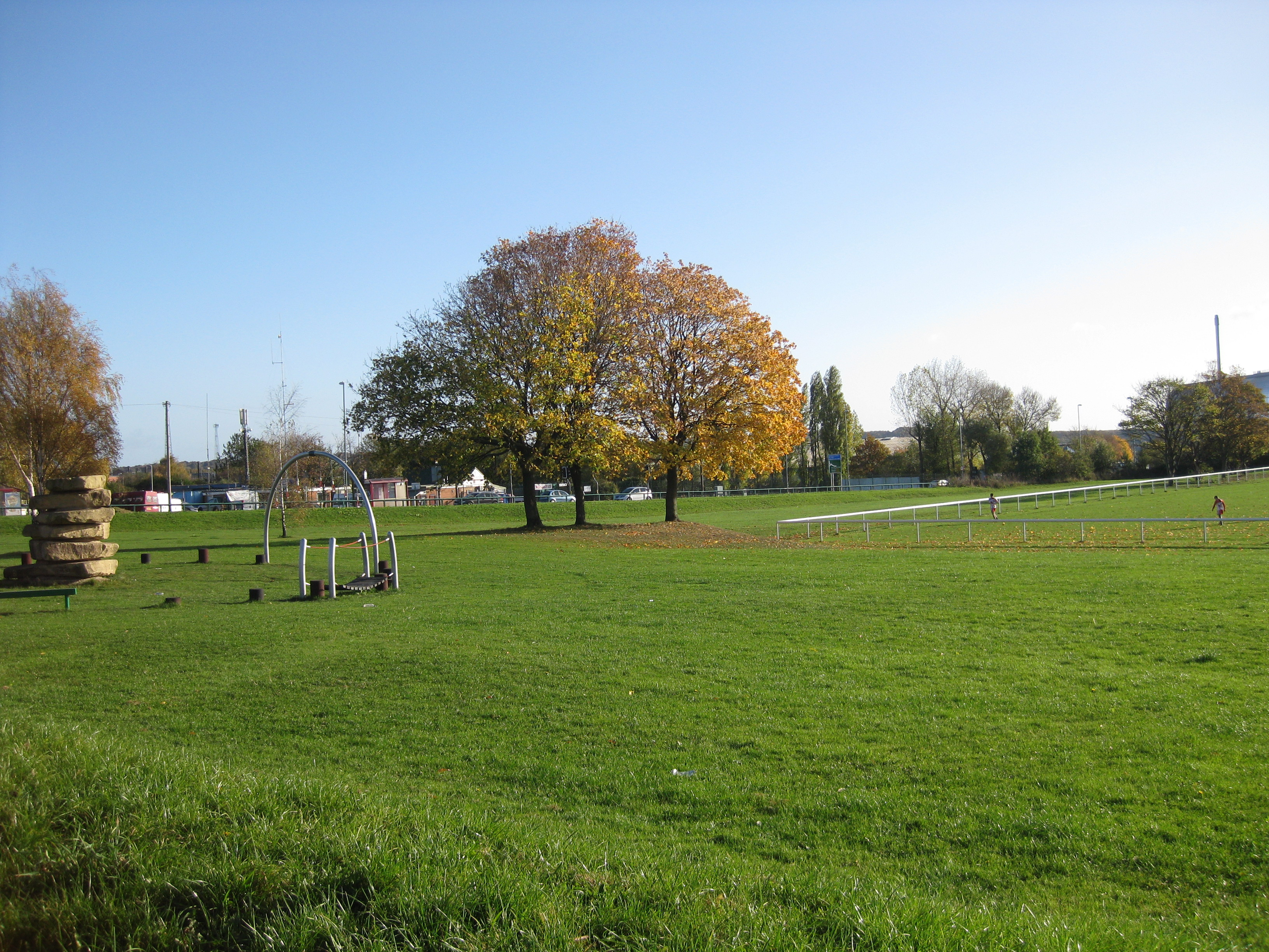 Cross Green Playing Fields, viewed from Cross Green, Leeds LS9